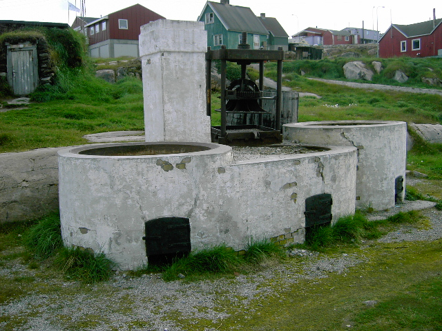 Whale oil tryworks at Ilulissat, Greenland